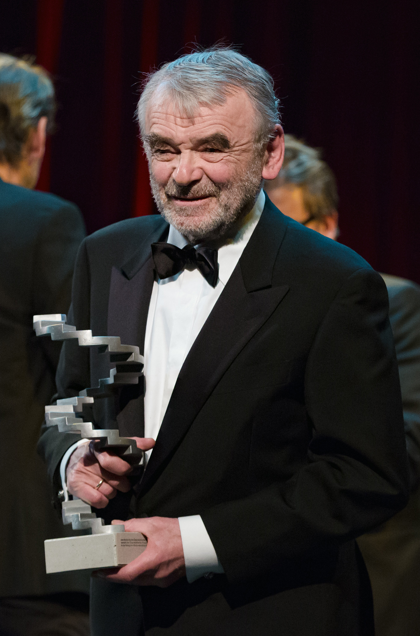 Austrian Film Awards 2017: Branko Samarovski, winner for best male supporting actor (Fog in August); Rathaus, Vienna, Austria.